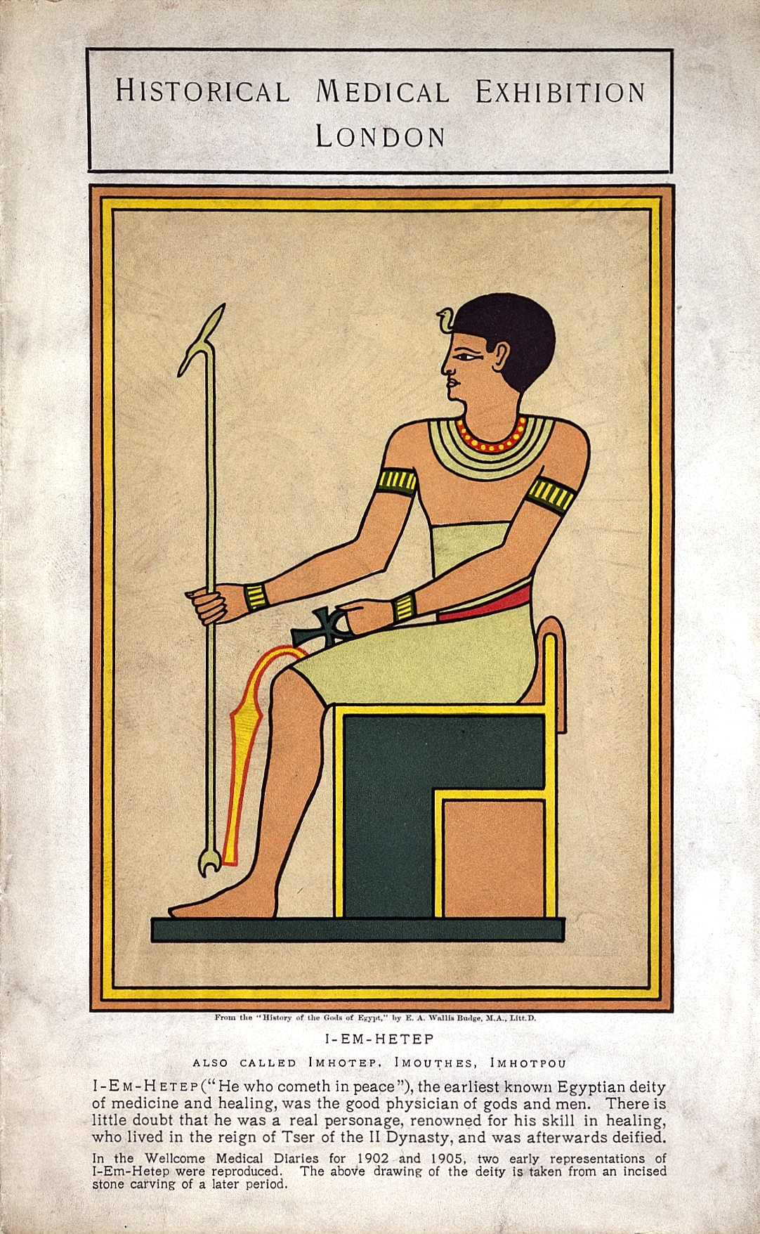 Egyptian god, I-Em-Hetep or Imhotep, the earliest known Egyptian deity of medicine and healing Wellcome Images Keywords: Wellcome Historical Medical Museum; Wellcome Publications; Egypt